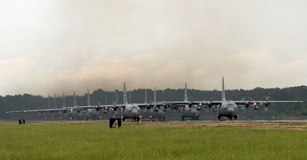 C-130s of the 314th Operations Group prepare for takeoff at Little Rock AFB, Arkansas